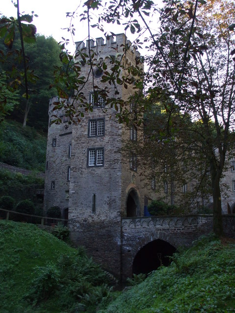 Gatehouse of Stolzenfels Castle